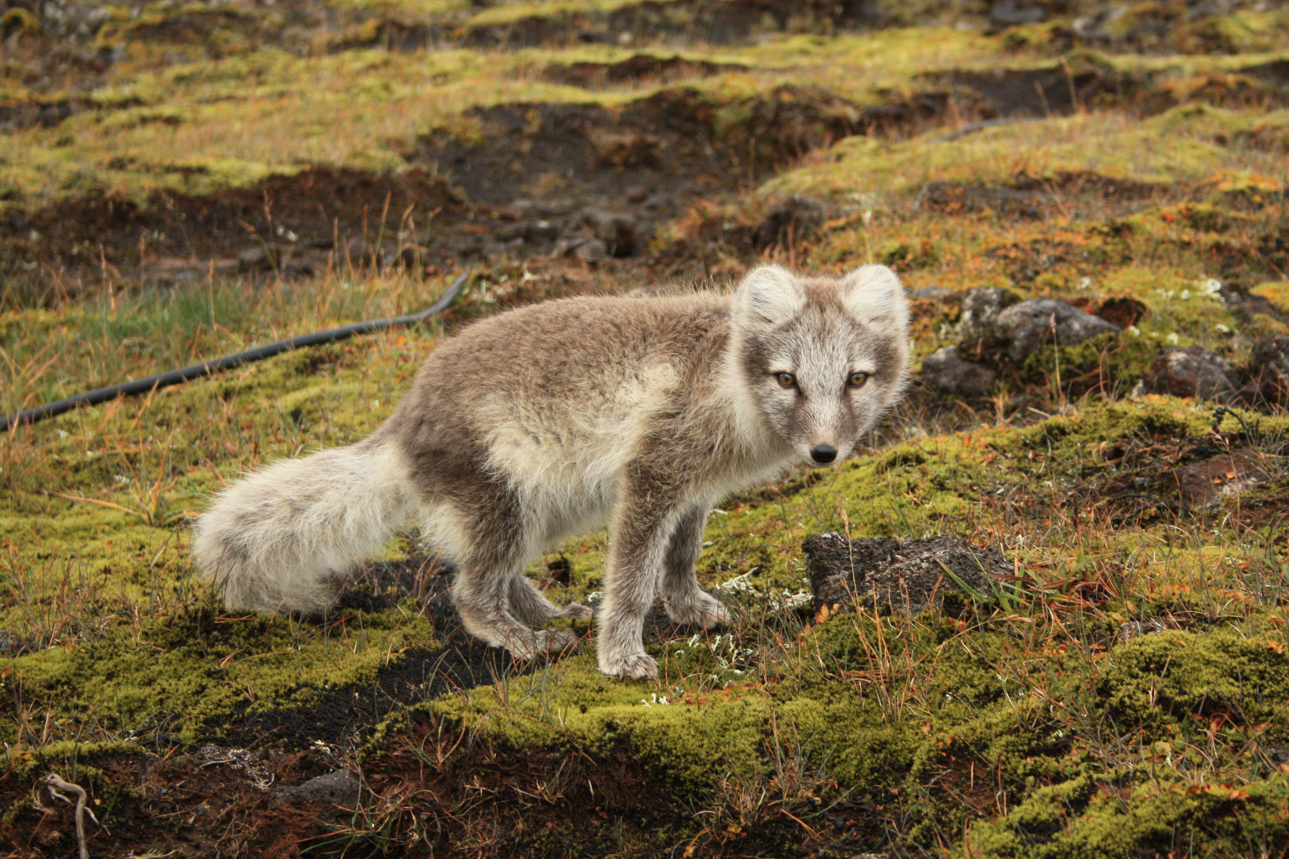 Young arctic fox near Thrihnukagigur volcano; Iceland